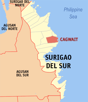 Map of the Surigao del Sur showing the location of Cagwait